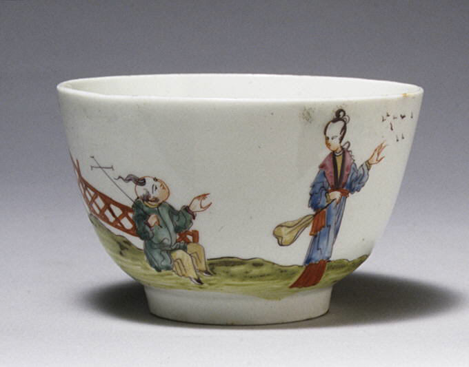 British, Liverpool; Bowl; Ceramics-Porcelain